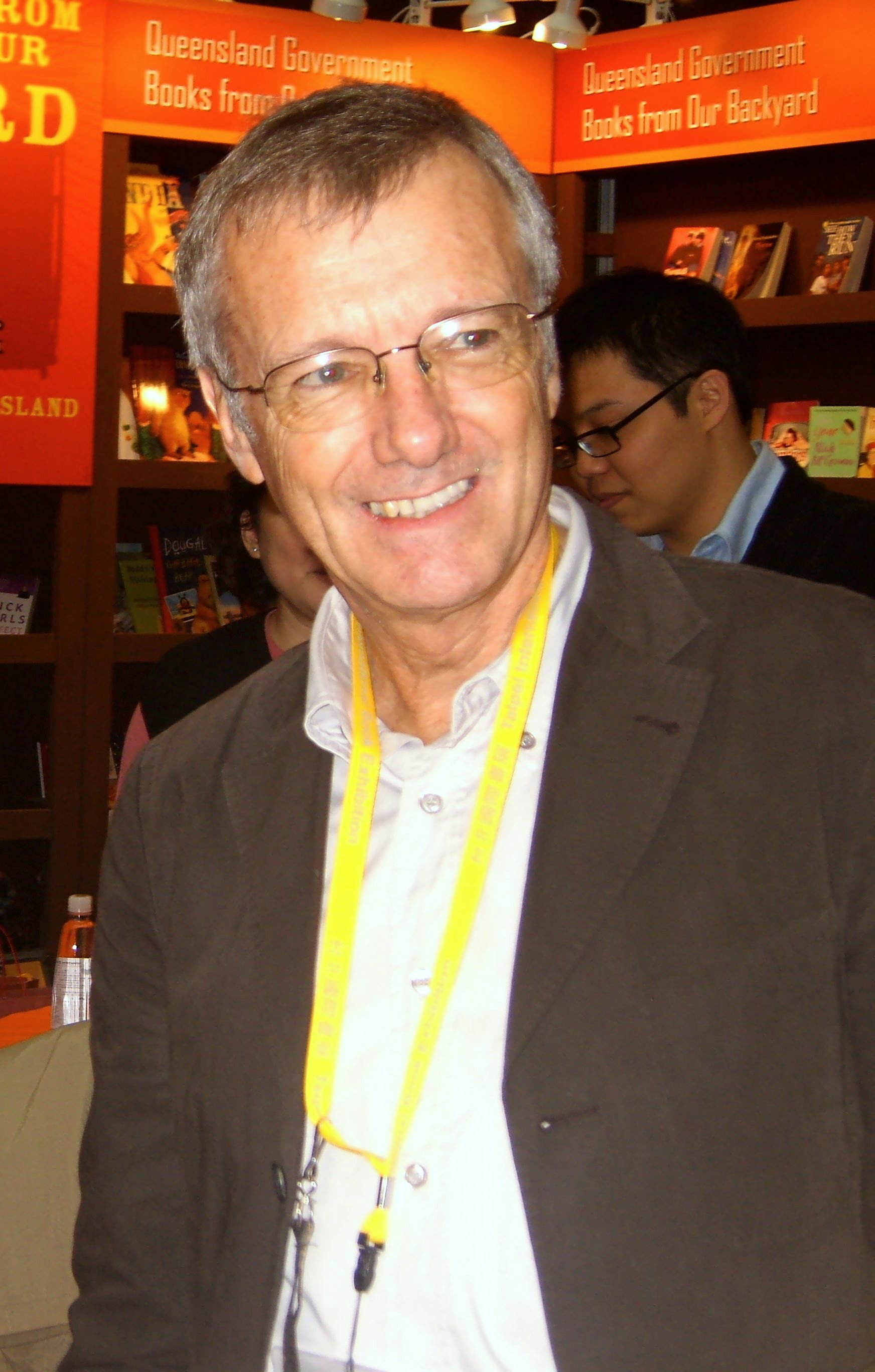 Tony Wheeler, Co-Founder of Lonely Planet, at the 2008 Taipei International Book Exhibition - Australia Pavilion.